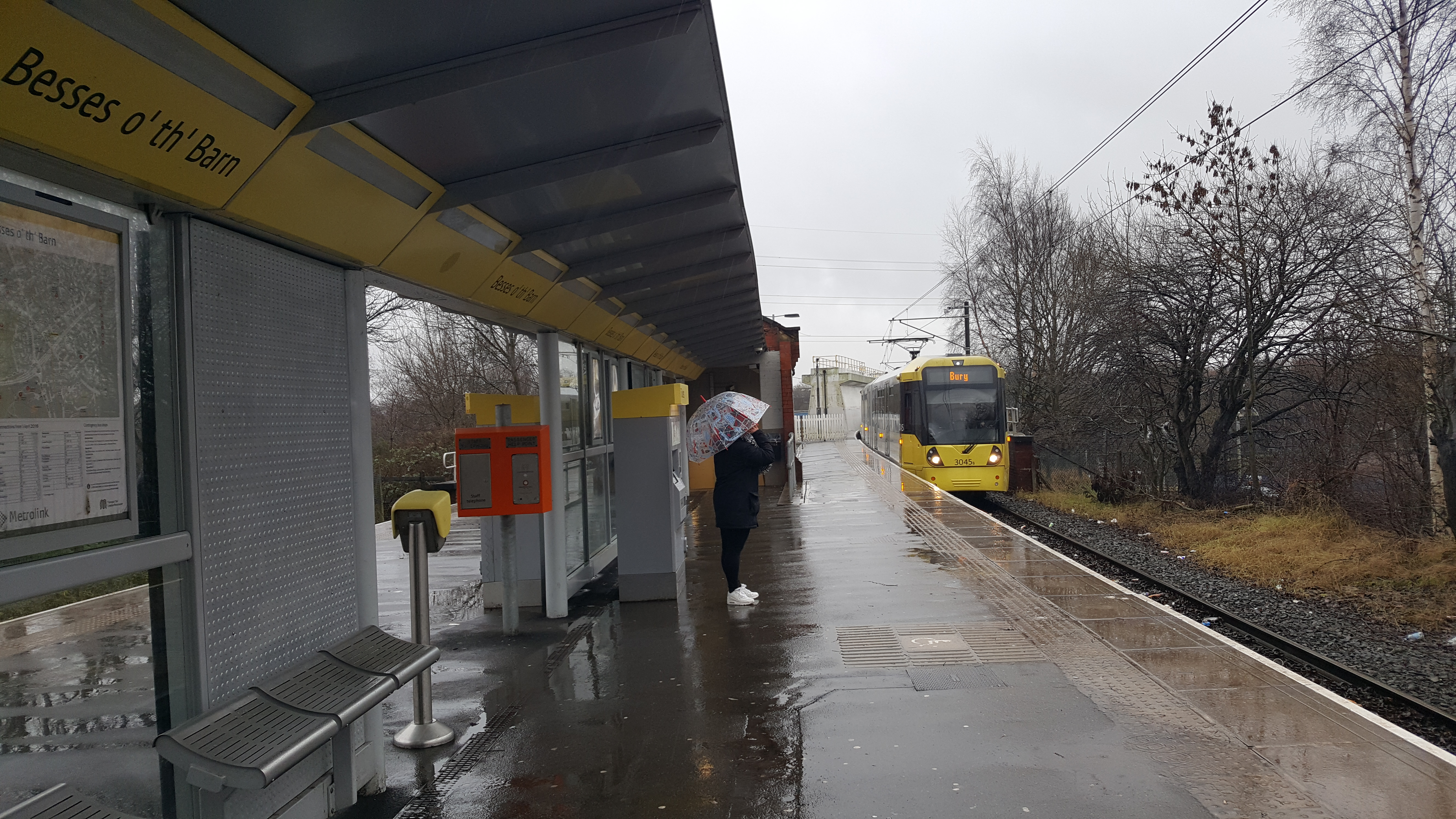 An M5000 approaches Besses o'th' Barn